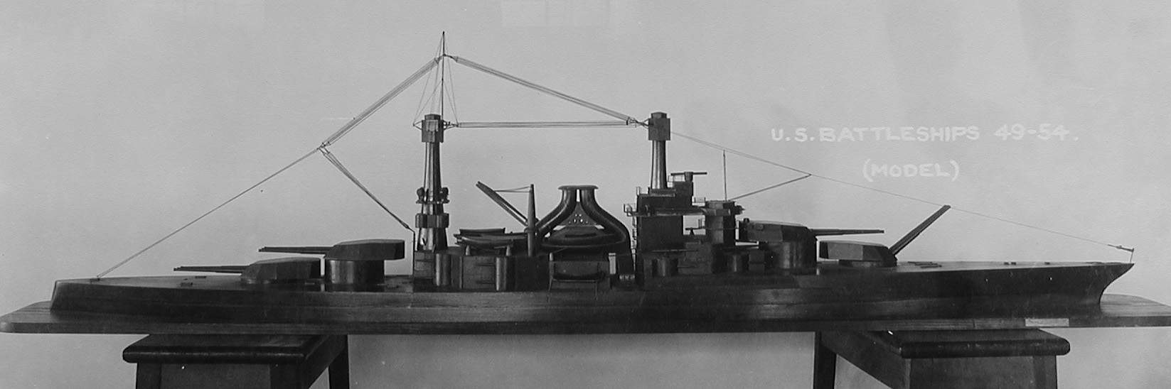 Model of South Dakota class battleships (BB-49 to BB-54)